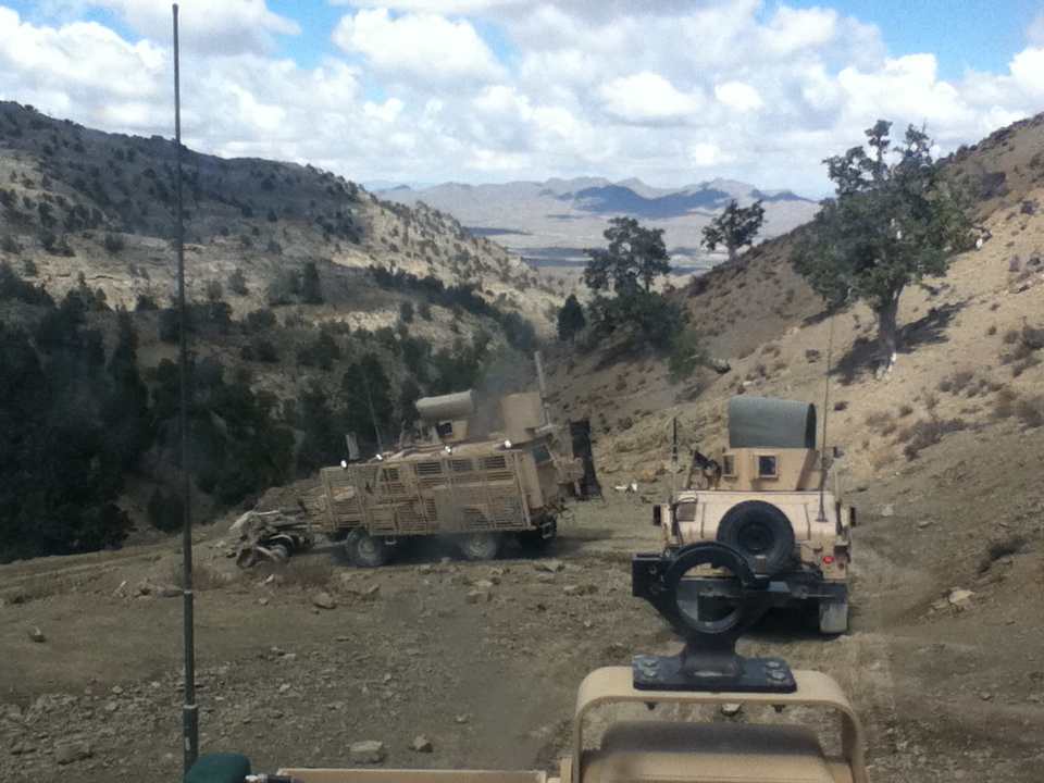 Alpha Company, 9th Engineer Battalion conducts a mechanized route clearance patrol partnered with an Afghan Army Route Clearance Company through the mountains of Paktika, Afghanistan in the spring of 2012. A US RG-31 with mine roller leads the convoy. Afghan Army forces are seen utilizing up-armored HMMWVs.